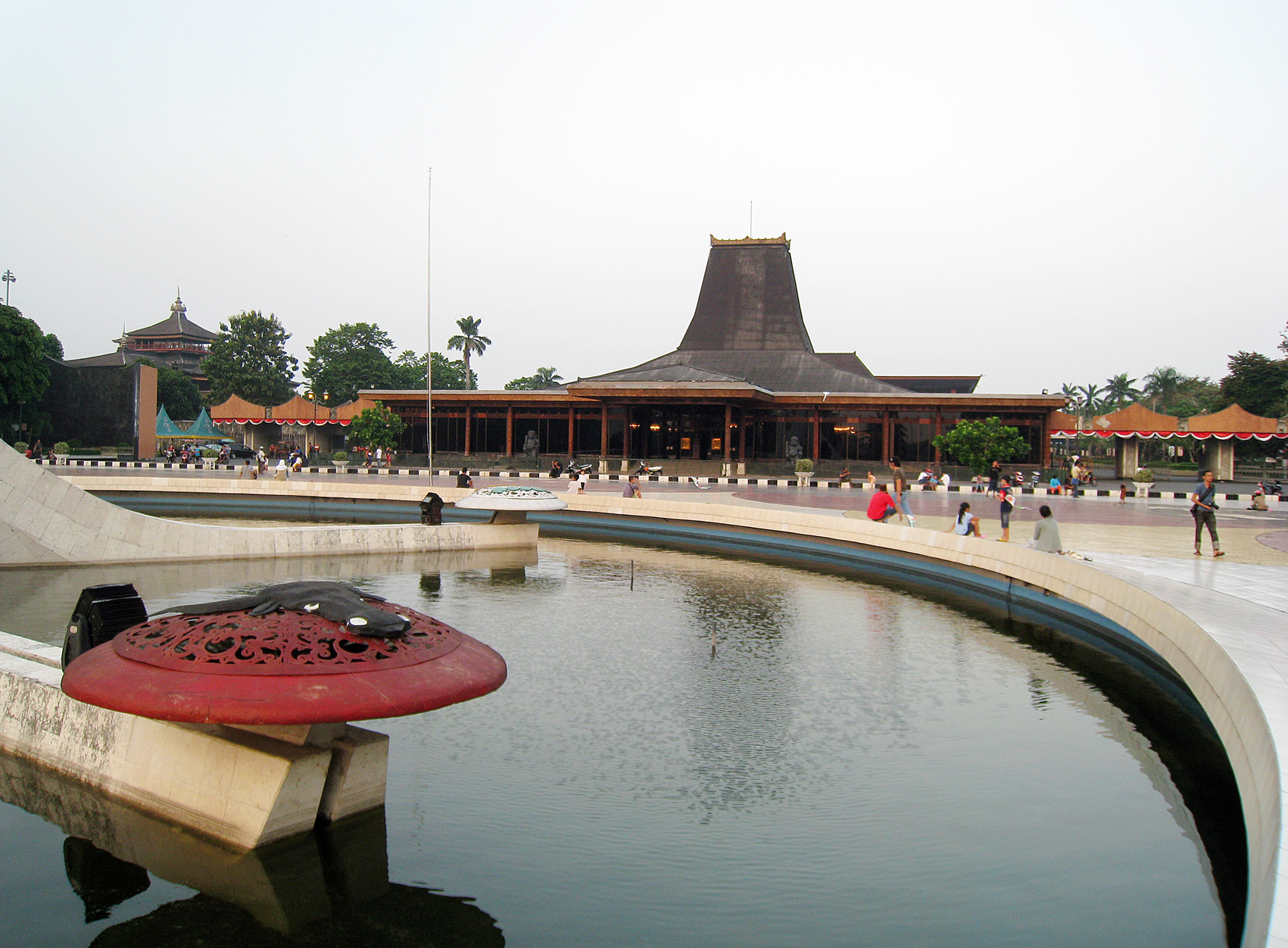 Sasono Utomo, the main building of Taman Mini Indonesia Indah featuring Javanese Joglo architecture, Jakarta.